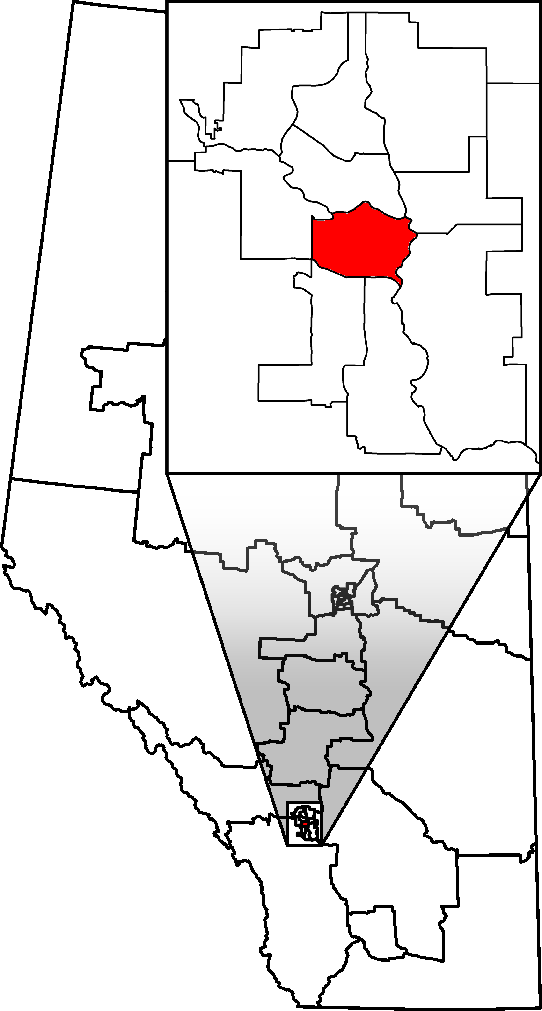 Federal Electoral District in Alberta, Canada as of the 2013 Representation Order.